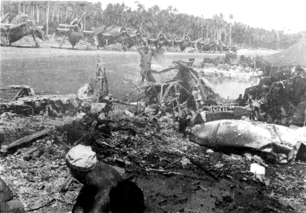 Remains of the Vought F4U Corsair of Marine Fighting Squadron 222 (VMF-222) that crashed at 0940 hrs at Samar, Philippines, on 24 January 1945 piloted by 1stLt Karl Oerth.